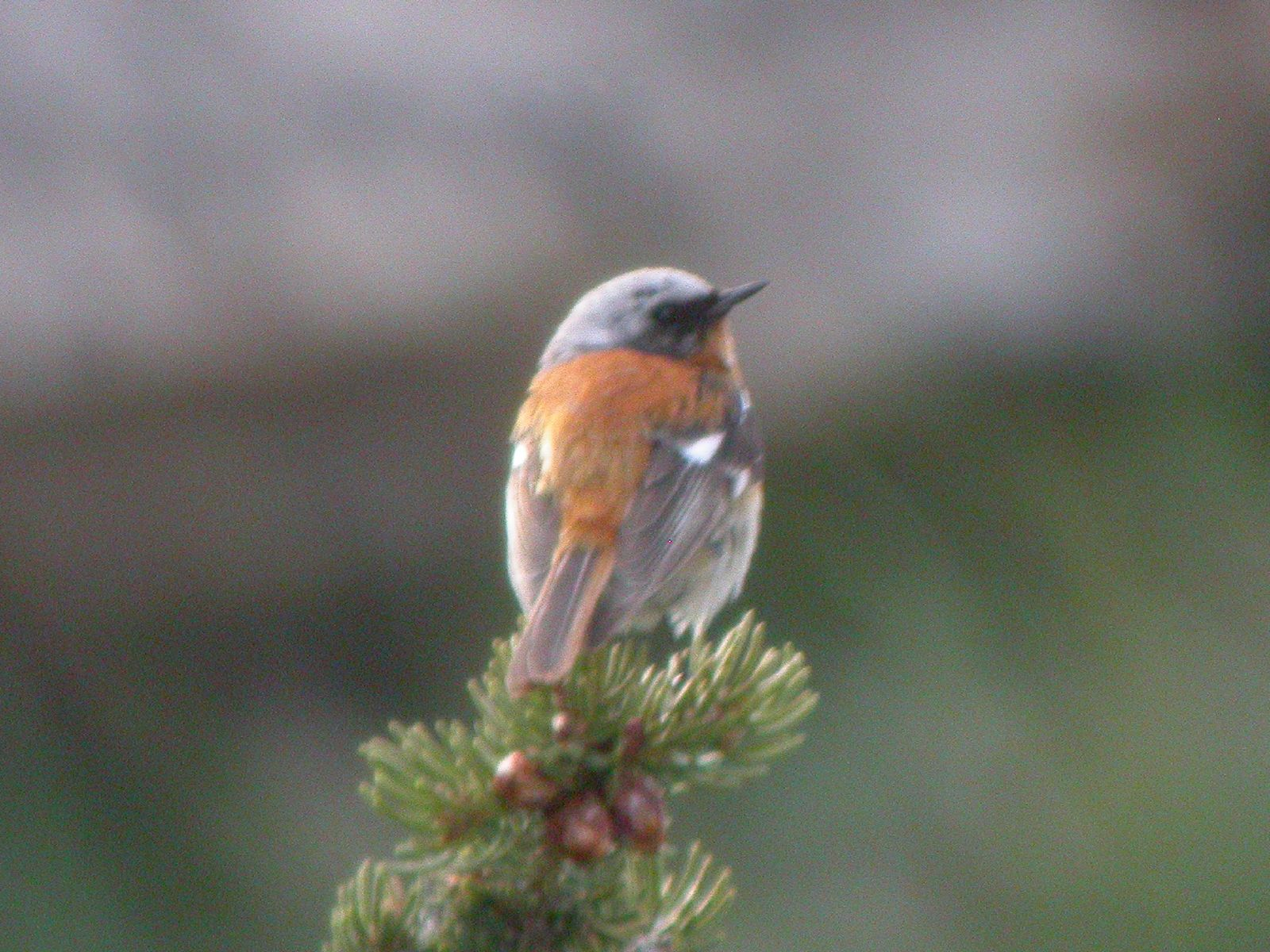 Rufous-backed Redstart (Phoenicurus erythronotus). Kazakhstan.